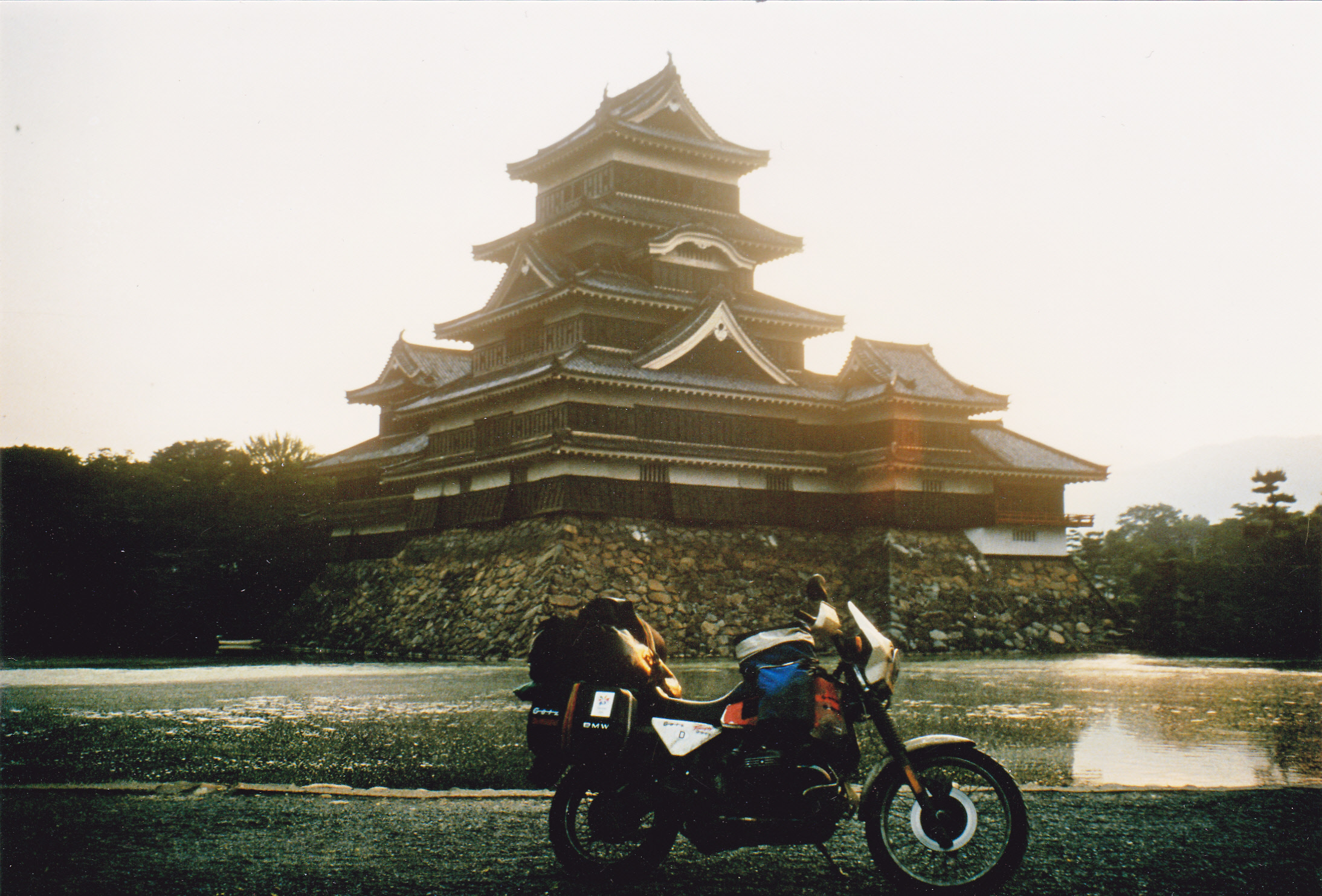 Travel around the world. BMW R 100 GS in front of Matsumoto Castle.